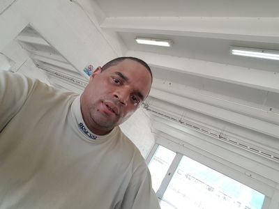 Brian Fowler paddock Homestead Miami Speedway